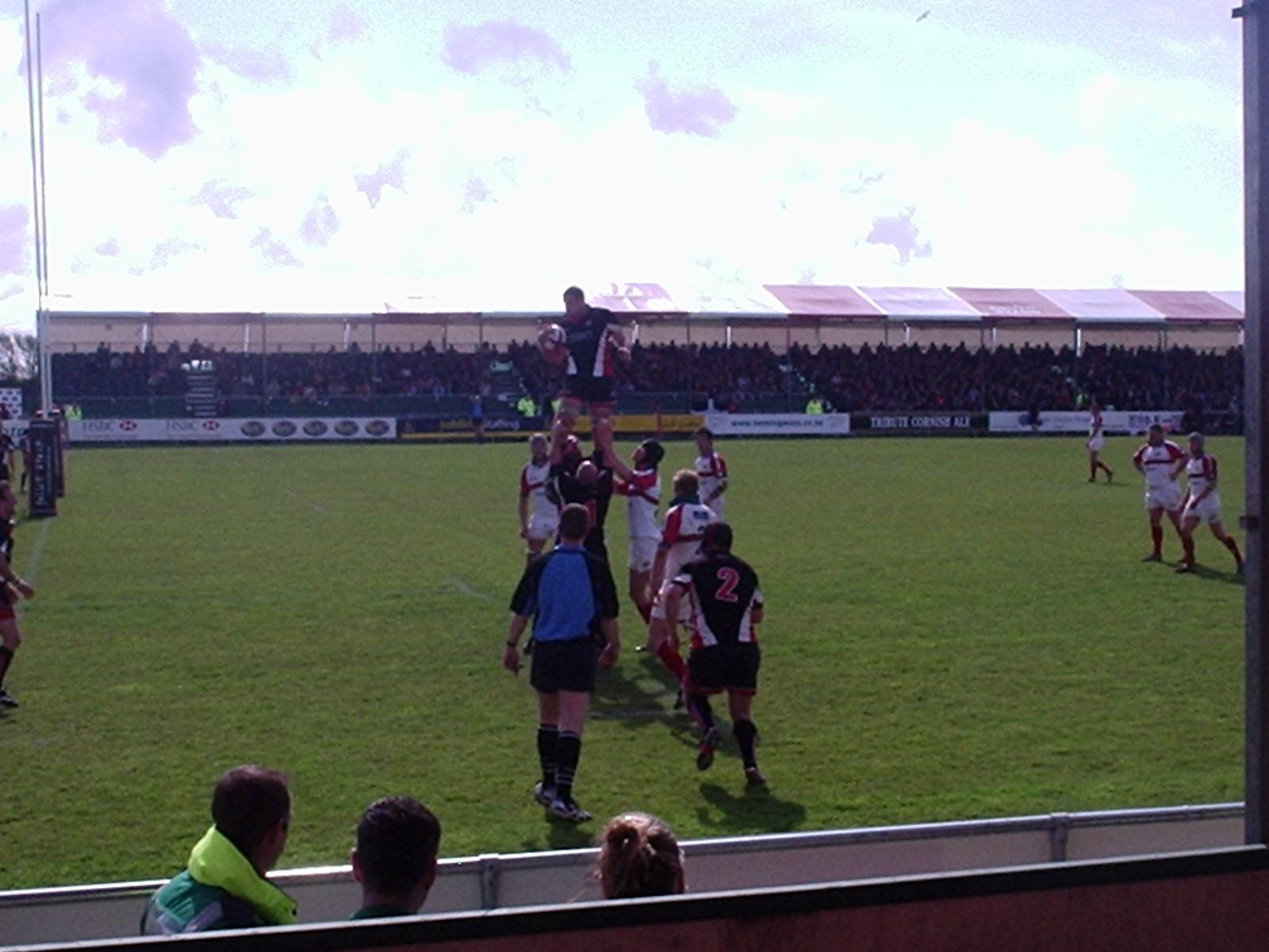 Joe Beardshaw is lifted in the line-out in a match against Plymouth Albion, at Kenwyn, April 2006.